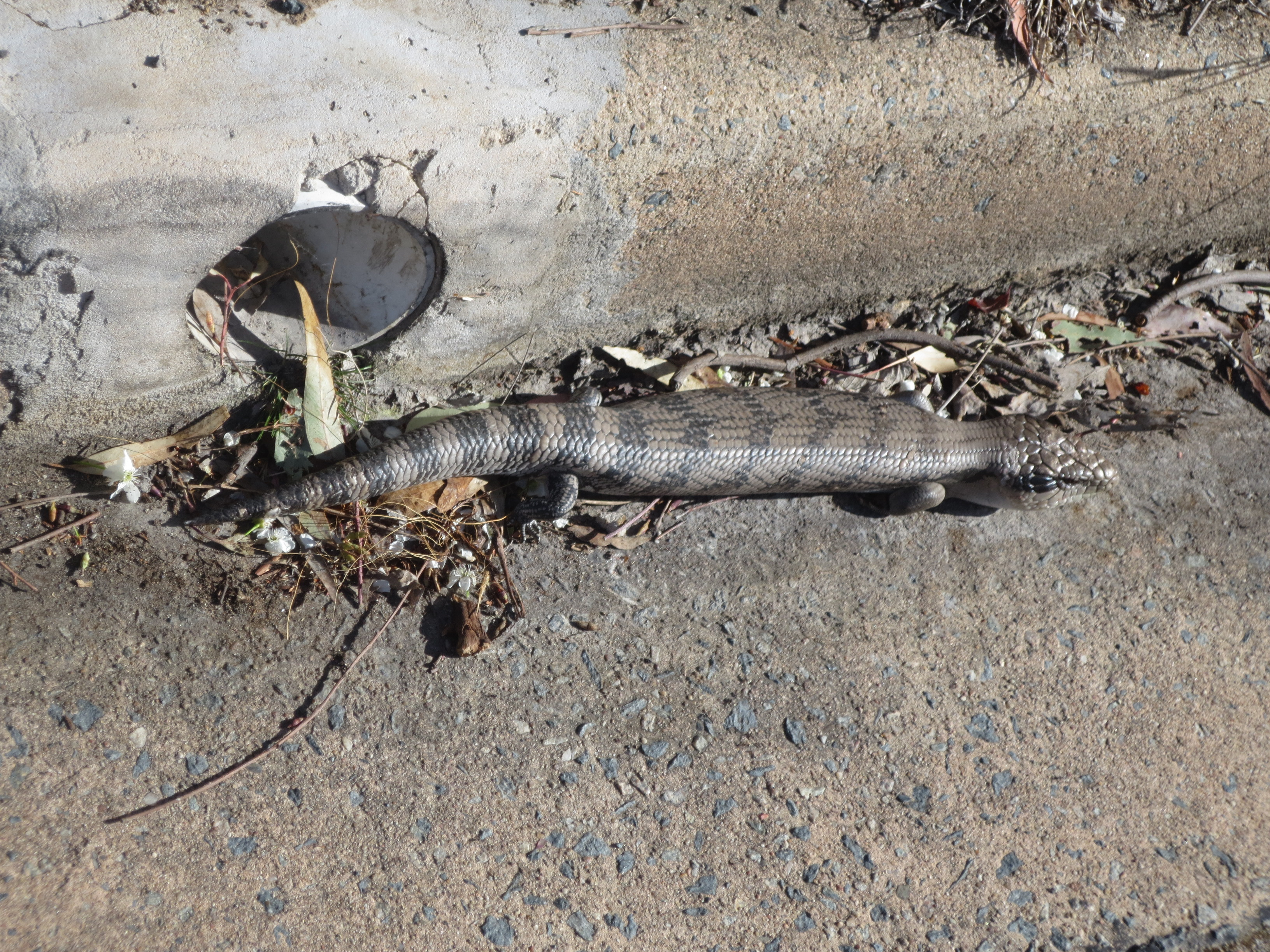 blue tongue lizard in kerb next to 4 inch stormwater pipe showing scale. Location Farrer, Canberra, Australia